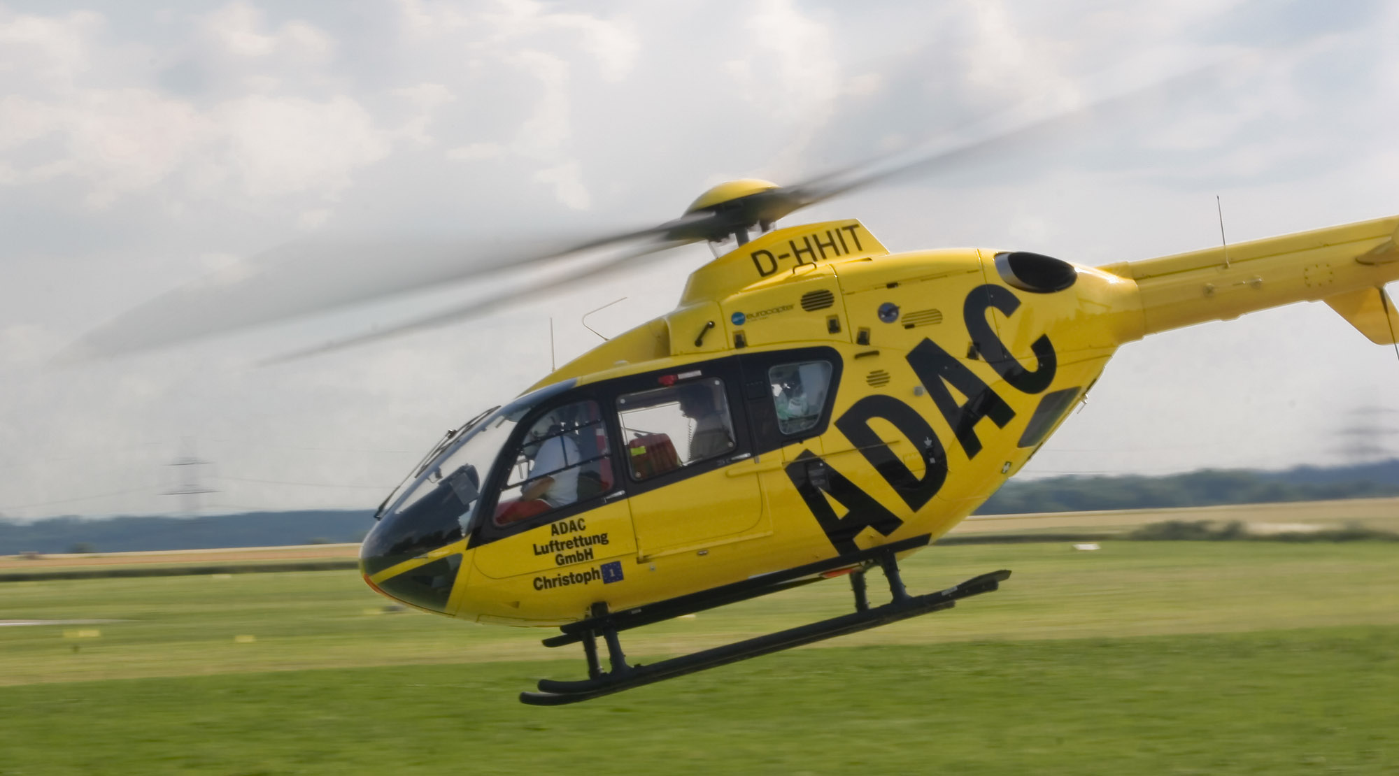 Take off from the ”Merzbrueck”-Airfield near Aachen (Germany)